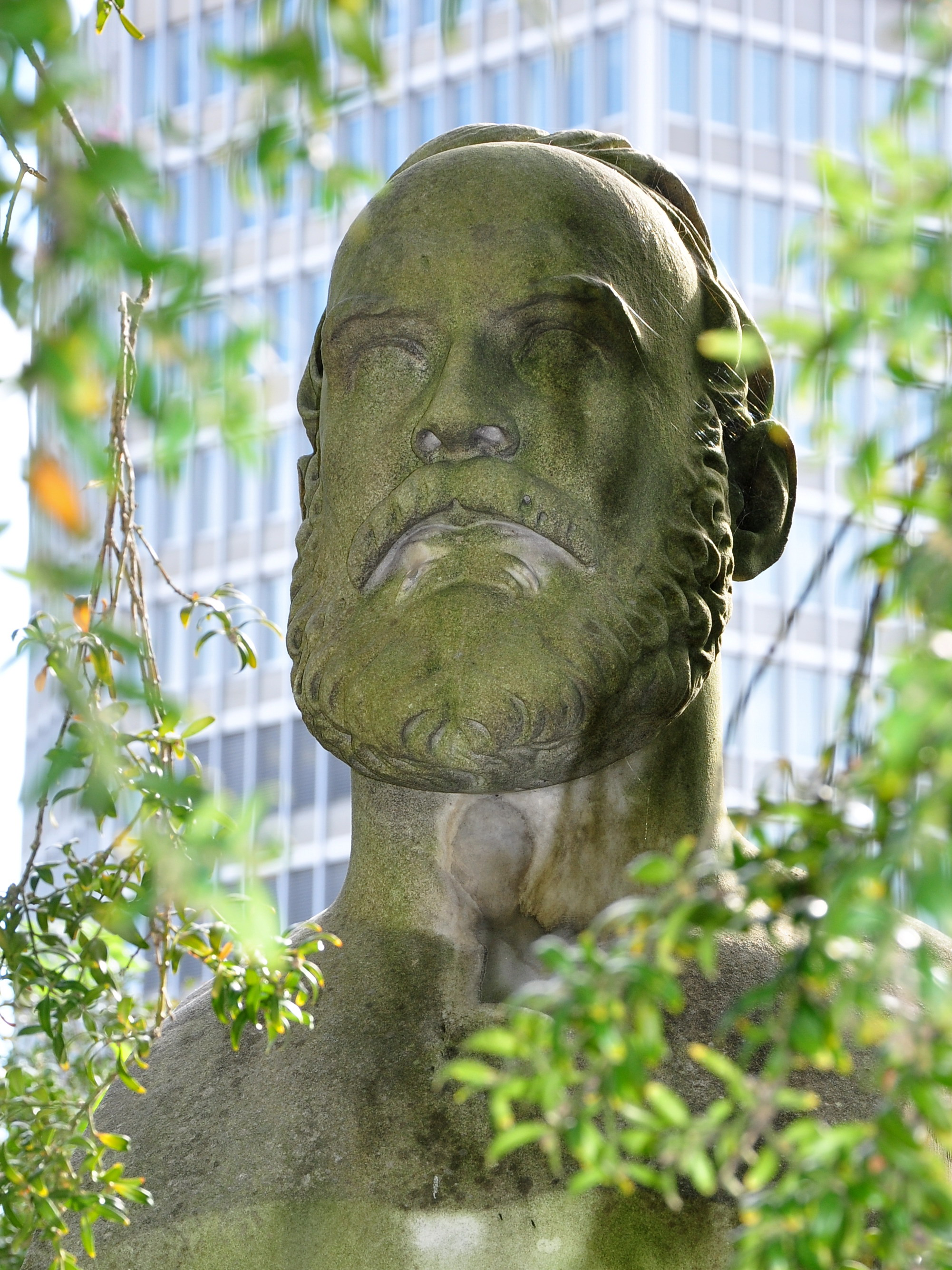 Heinrich Zollinger memorial, Botanical Garden «zur Katz» respectively Völkerkundemuseum in Zürich (Switzerland).